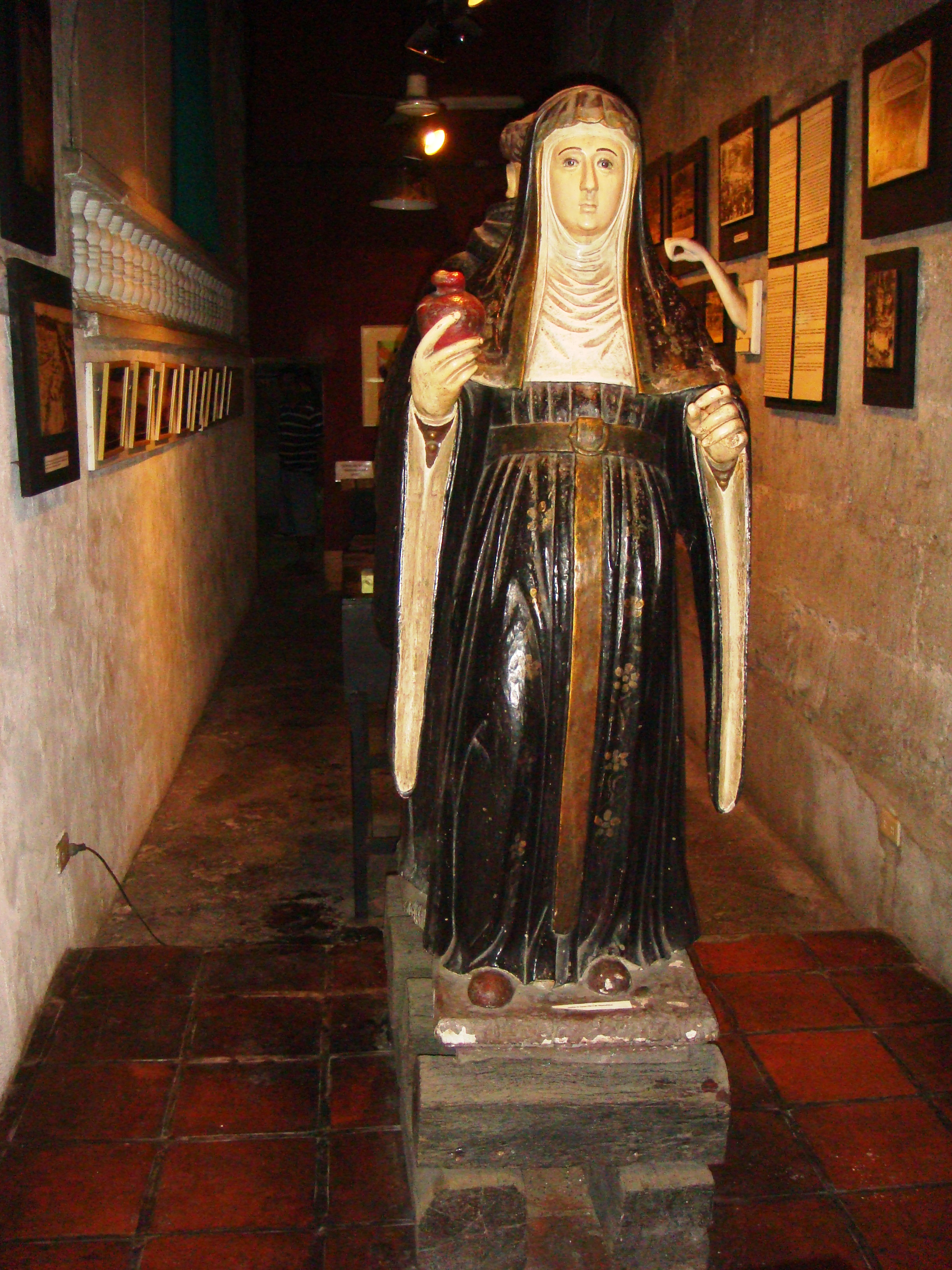 Saint Clare of Montefalco[1] inside Pulilan, Bulacan Museum